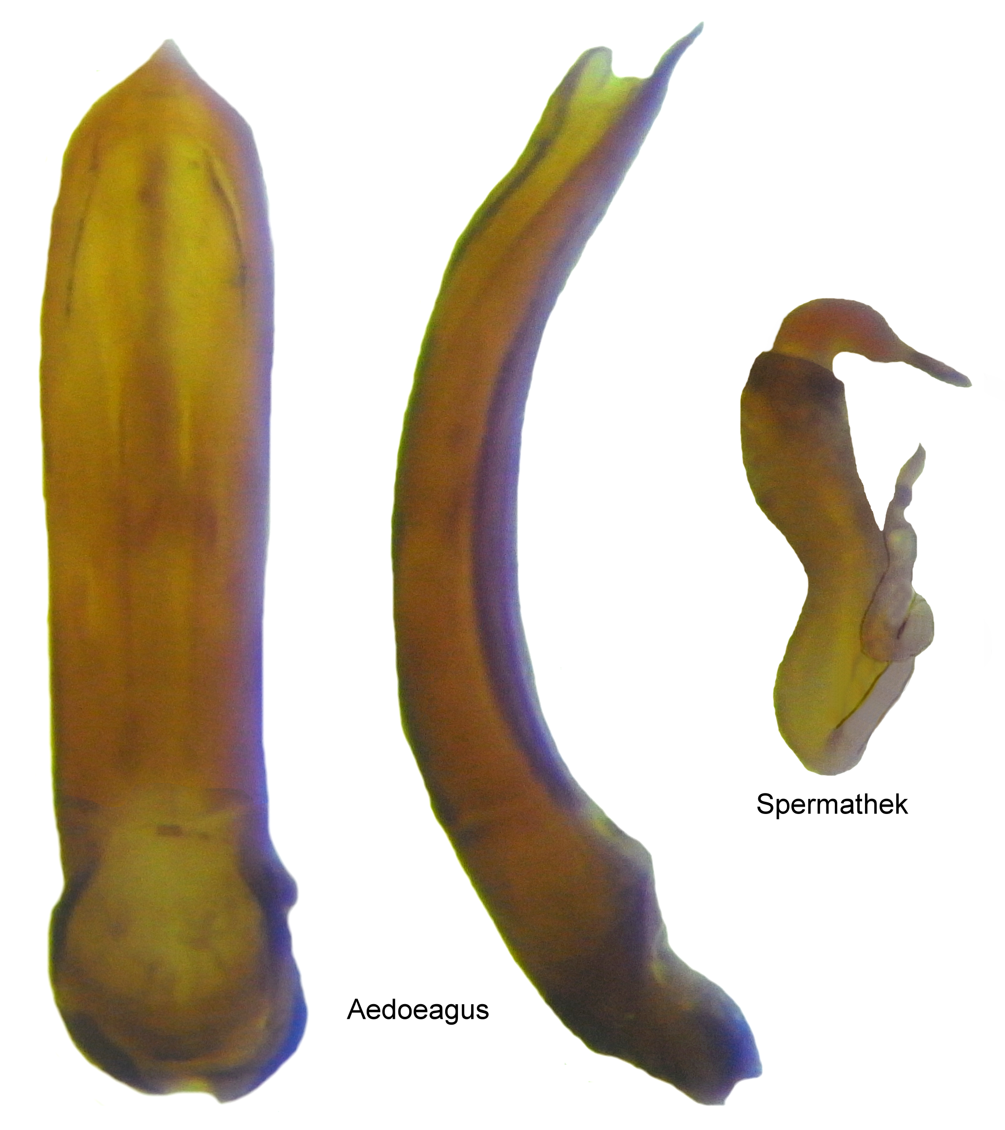 Family: Chrysomelidae Description: Aedoeagus 0.84 mm; Spermathecae 0.37 mm Photo: U.Schmidt, 2011